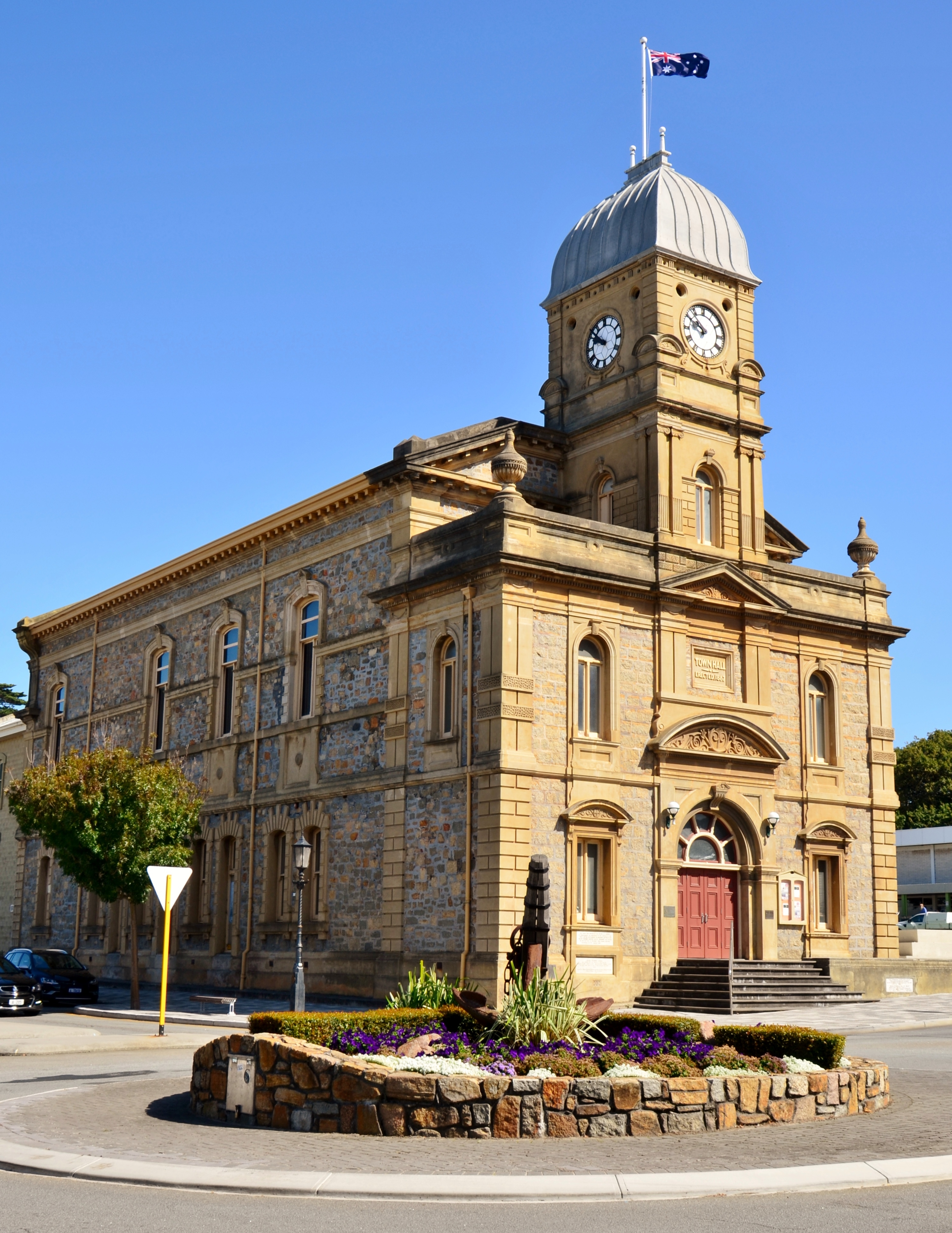 View of the Albany Town Hall, York Street, Albany, Western Australia